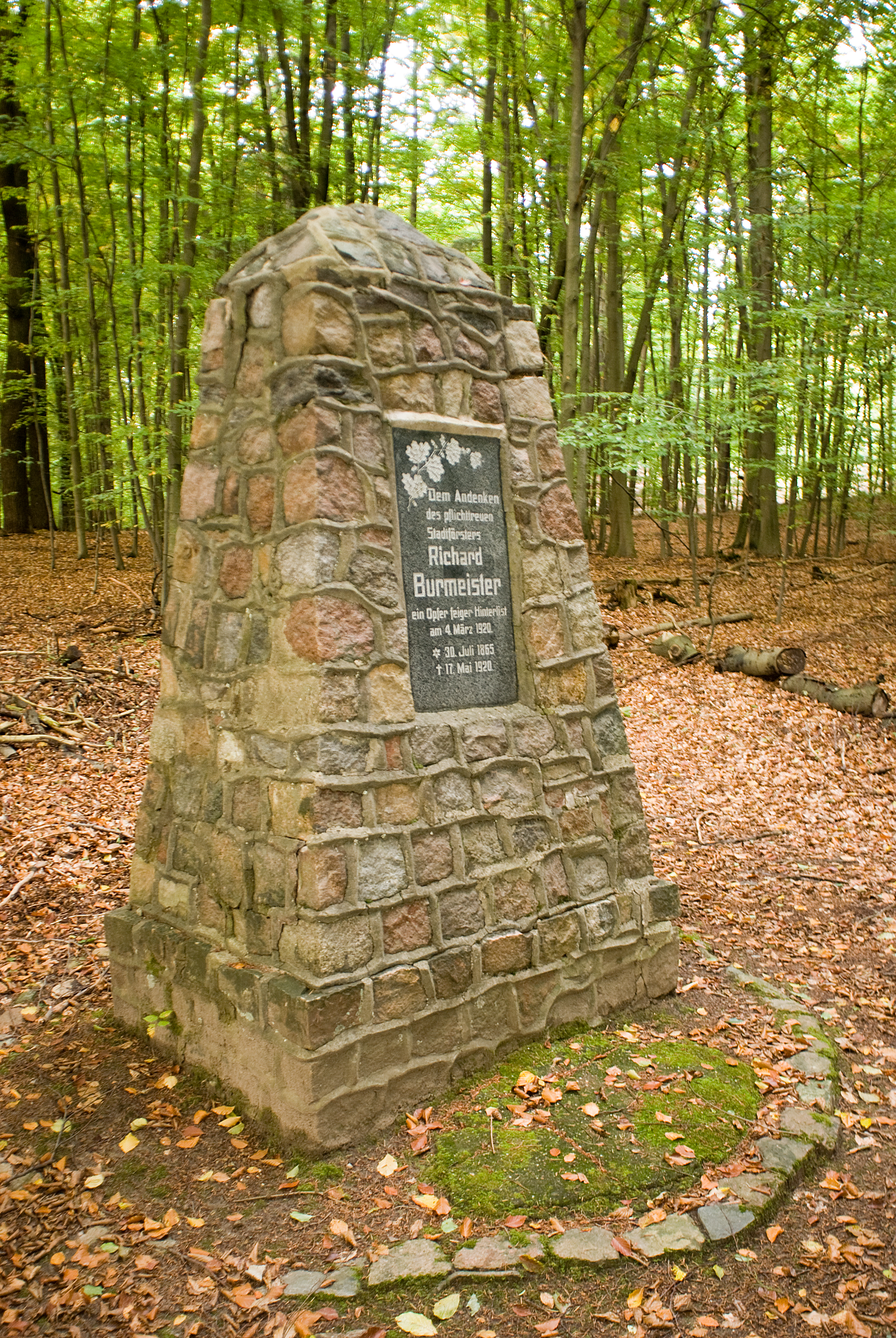 Memorial for the municipal forester Richard Burmeister at the foresters house Eduardspring near Frankfurt (Oder), Germany.